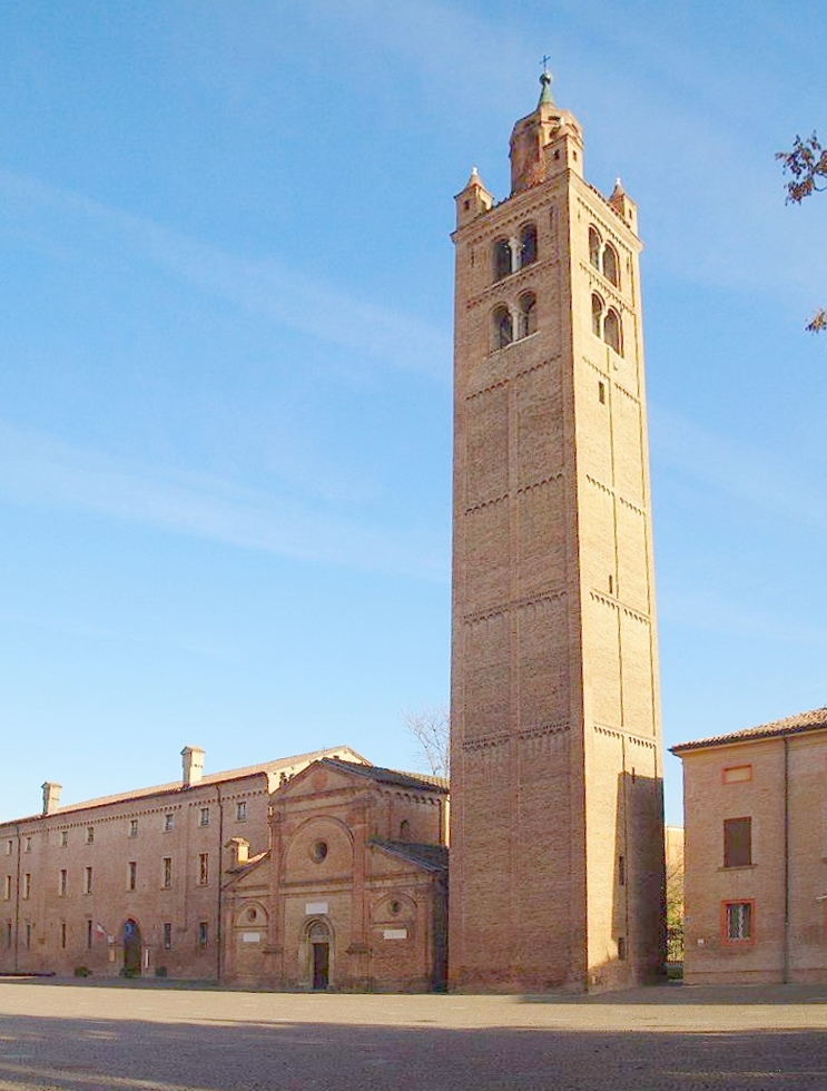 Church of Santa Maria in Castello, in Carpi, Modena